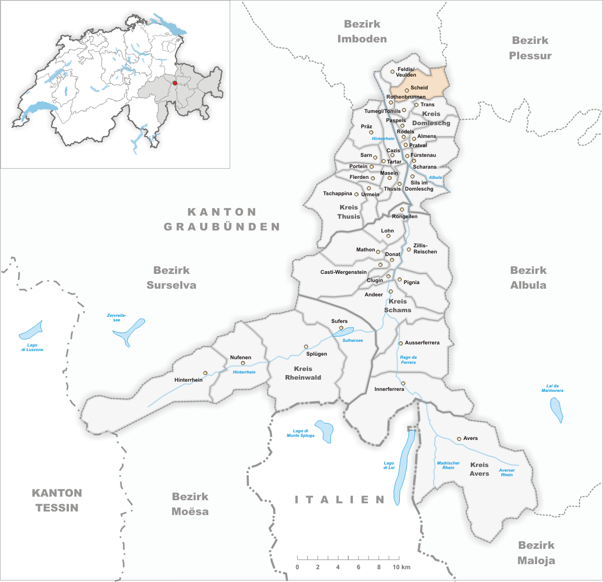 Municipality Scheid